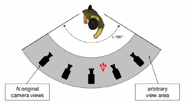 Multicamera record system.